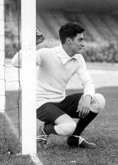 Argentine Goalkeeper Angel Bossio at the 1928 Olympics (Match vs. USA, 11:2)